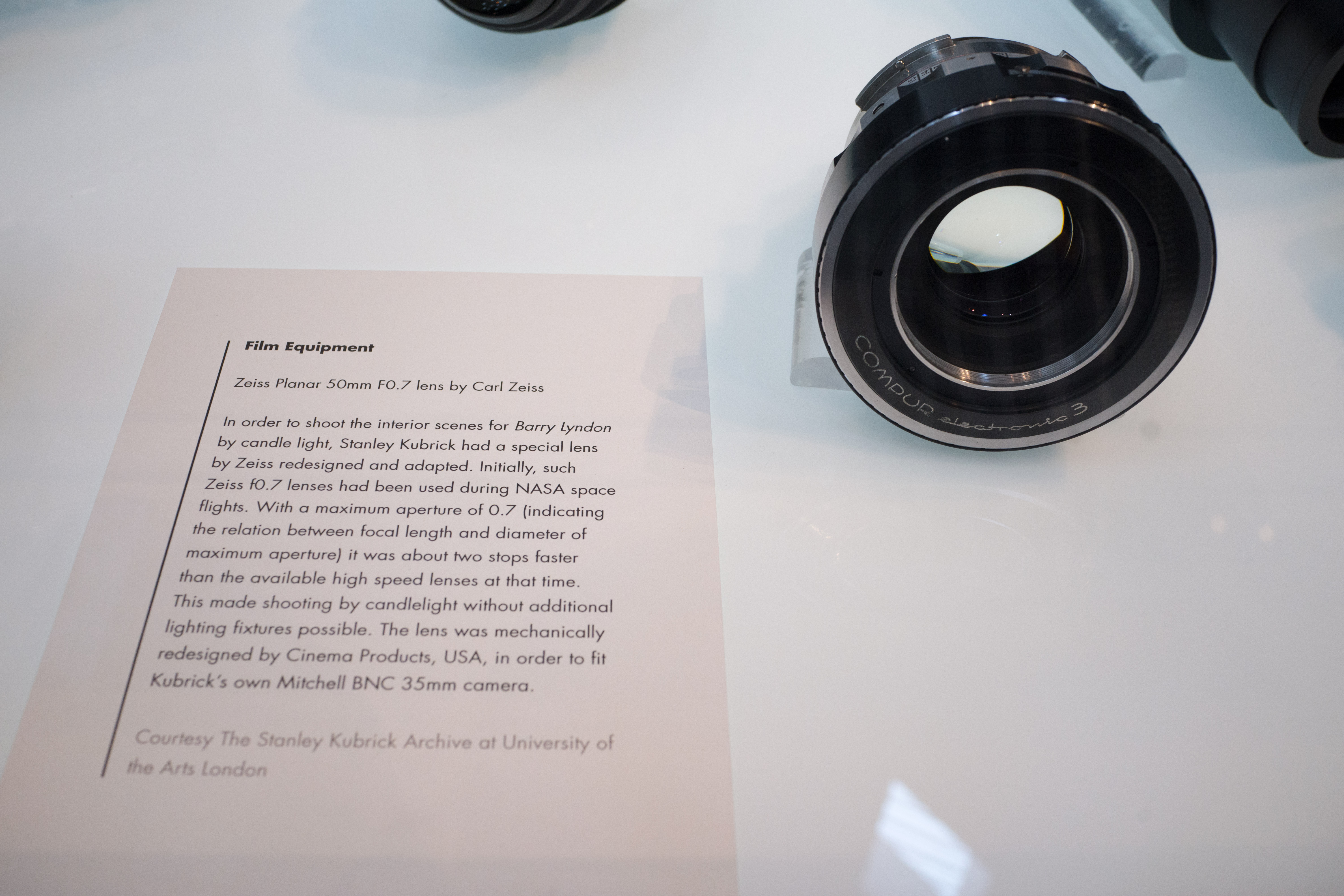 One of Stanley Kubrick's Zeiss Planar 50mm F0.7 lenses used for shooting Barry Lyndon. Lens displayed as part of the Stanley Kubrick exhibition in San Francisco.